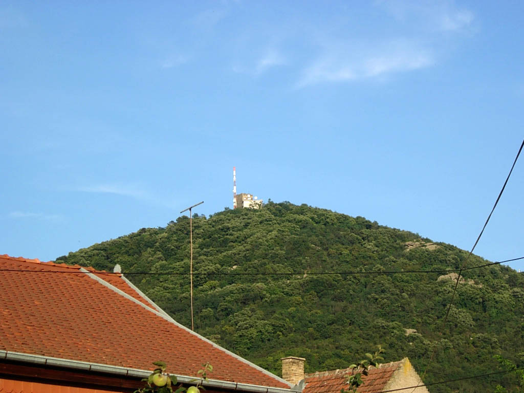 The hill over Vršac with tower.